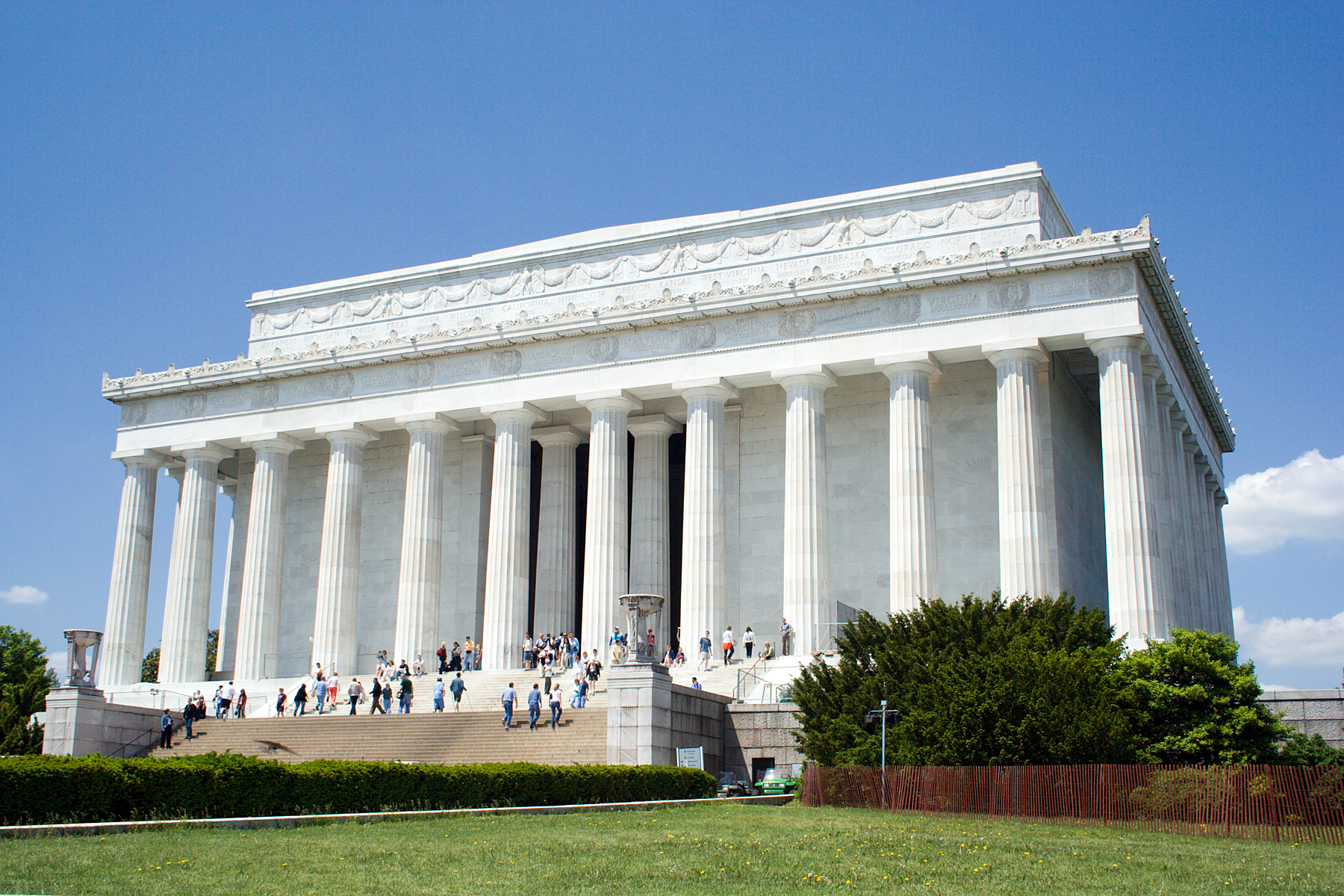 The Lincoln Memorial is a United States Presidential memorial built to honor the 16th President of the United States, Abraham Lincoln. It is located on the National Mall in Washington, D.C. The building is in the form of a Greek Doric temple and contains a large seated sculpture of Abraham Lincoln and inscriptions of two well-known speeches by Lincoln.